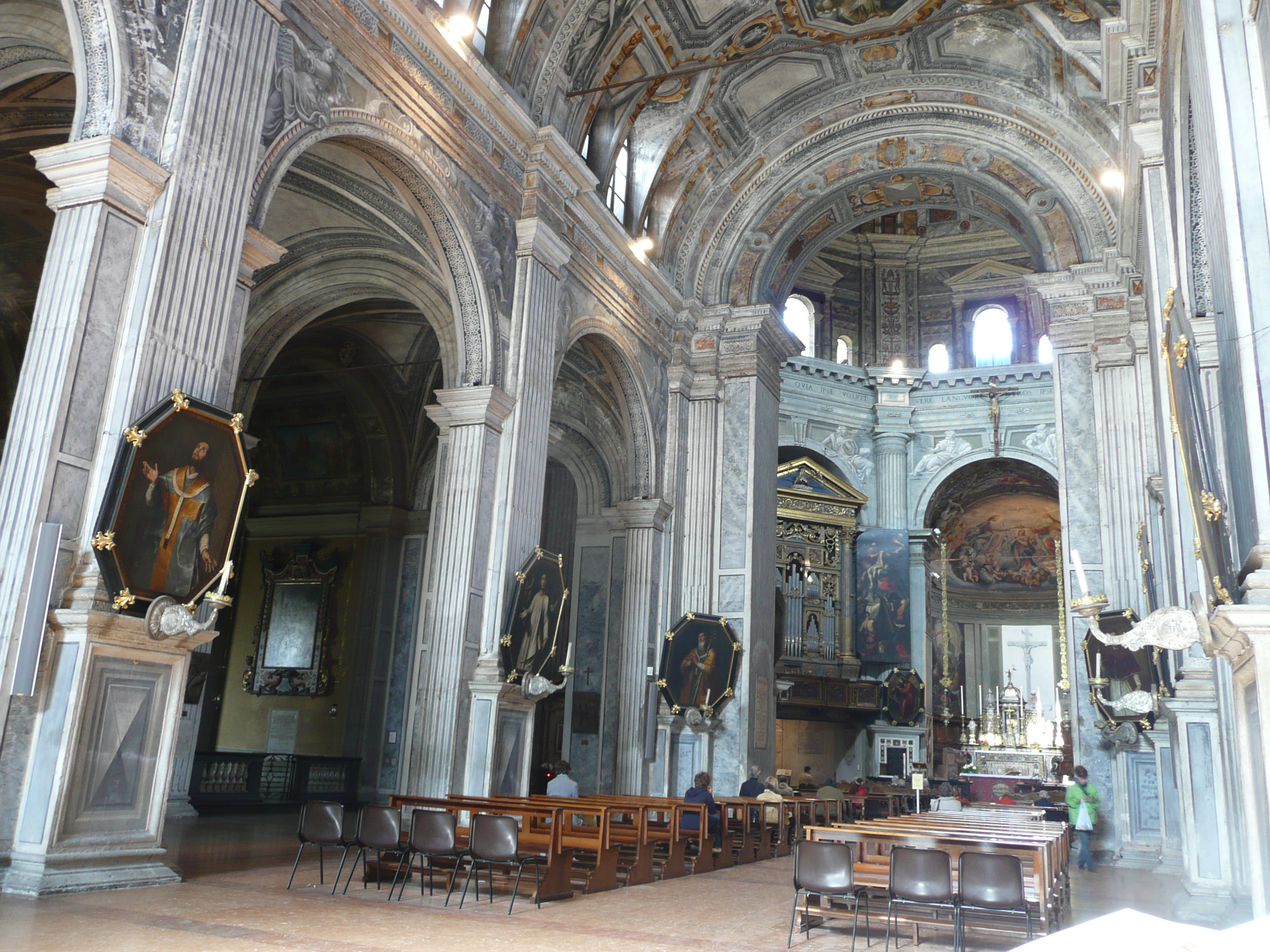 Santa Maria della Passione (Milan)